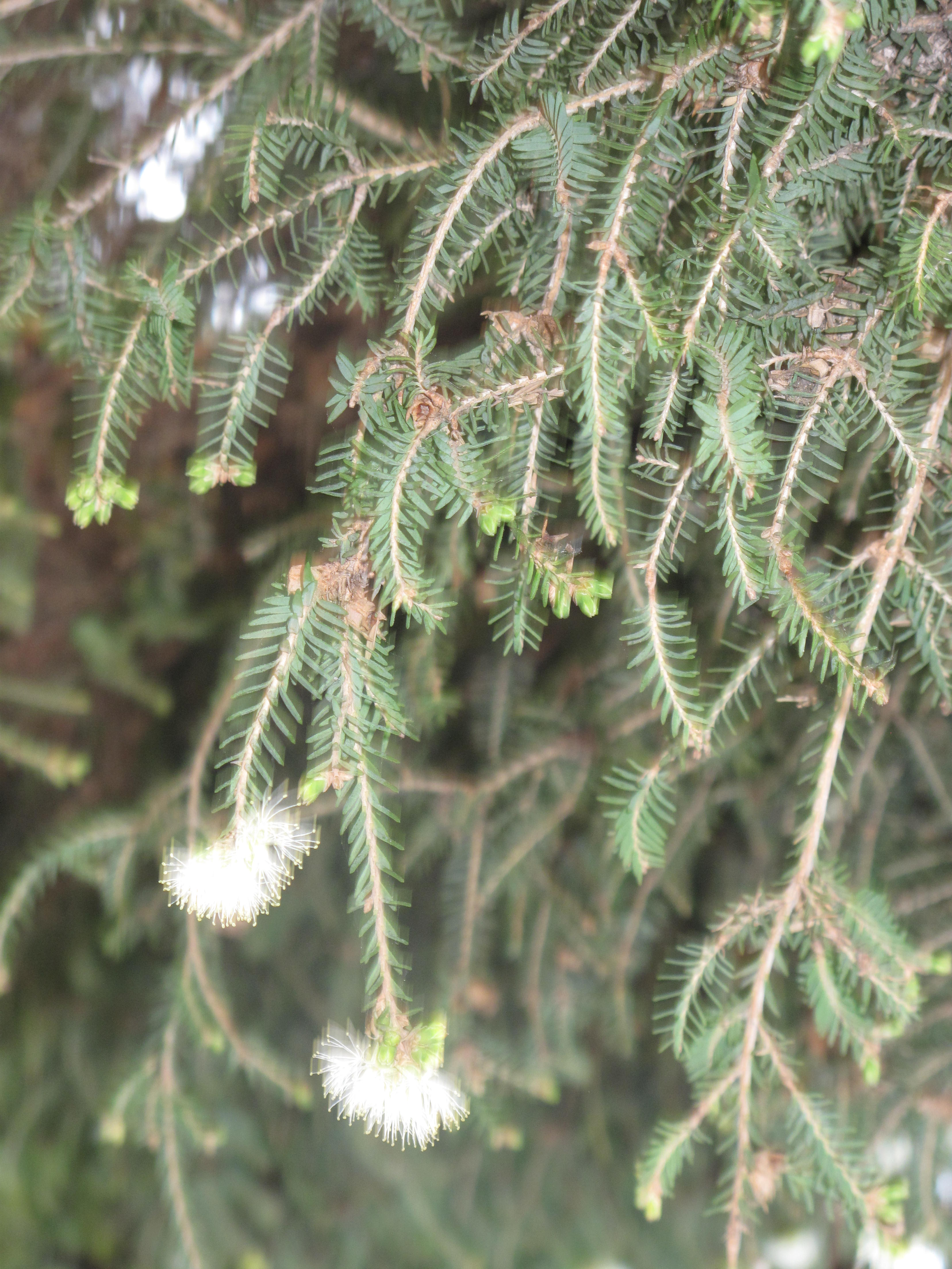 Flowers of Melaleuca in the garden of the villa Maria Serena in Menton (Alpes-Maritimes, France). Identified by botanic label.